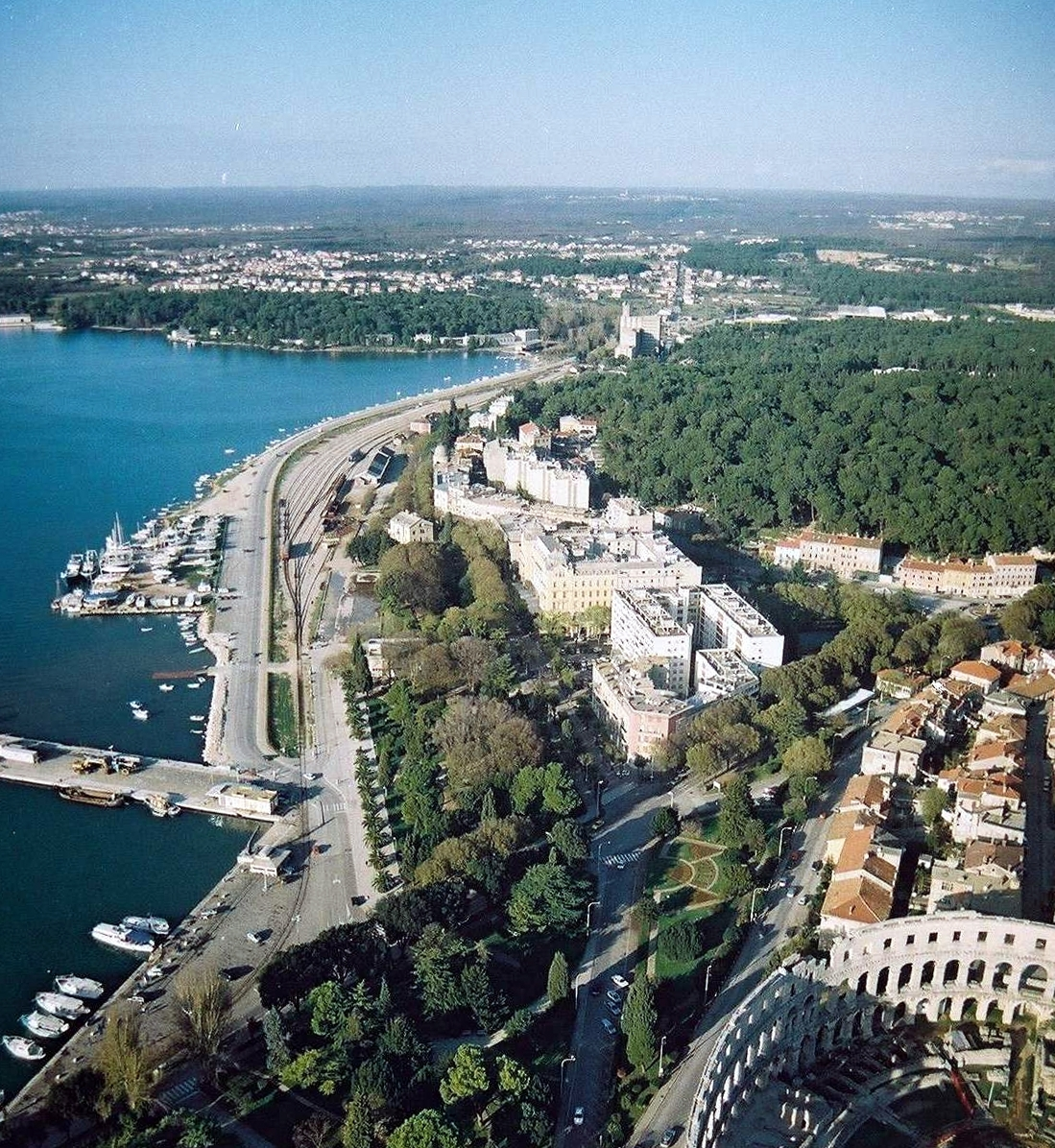 Pula, view from the air